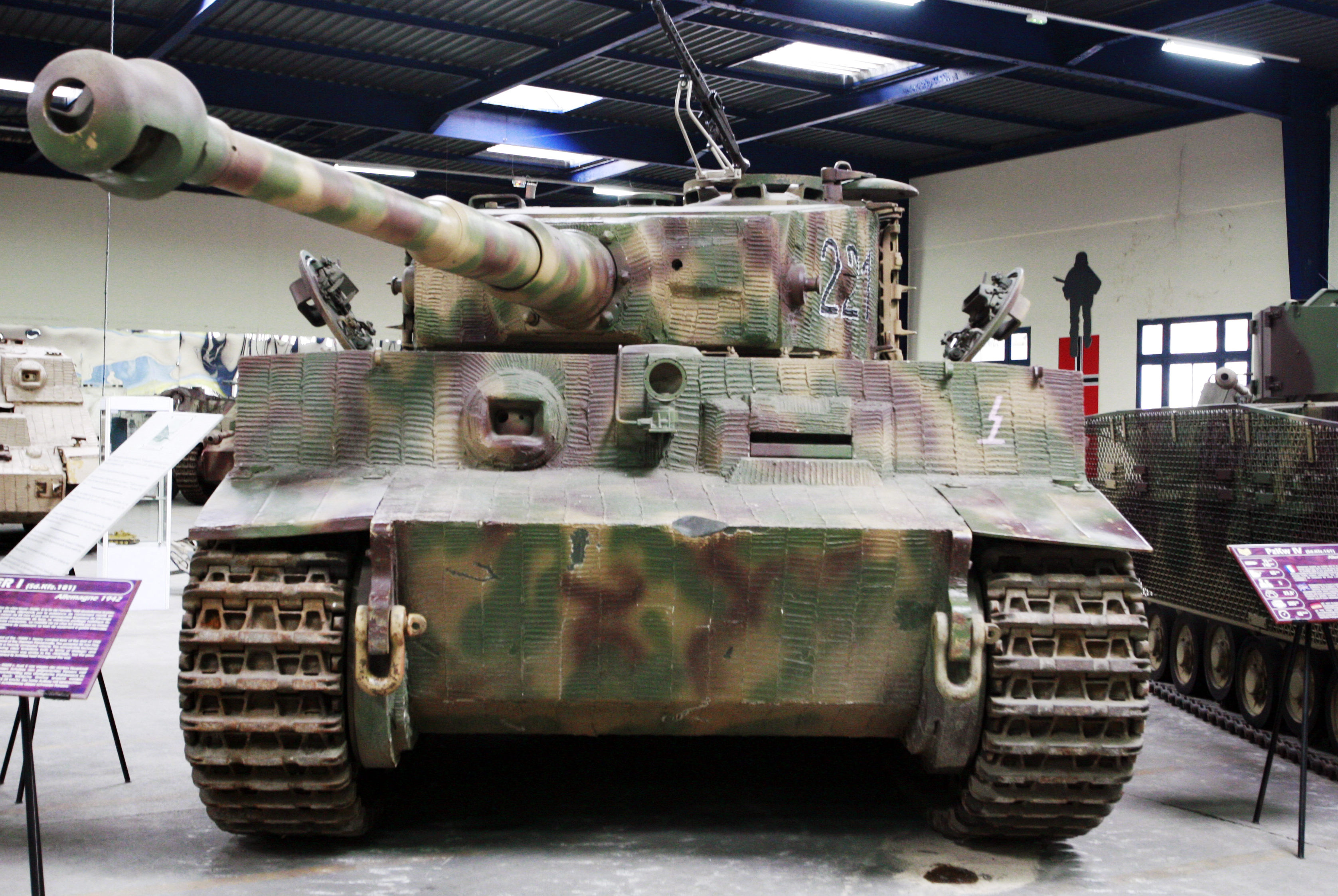 Tiger I tank. On display at Saumur Général Estienne museum. This Tiger was part of the 2nd company of the SS Heavy Panzer Battalion 102, fought in the Cauville sector, and was abandonned by its crew after a mechanical breakdown. It was captured by French troops, renamed Colmar, and recommissioned with the 2nd squadron of the 6th Cuirassier Regiment, fighting its way all back to Germany.